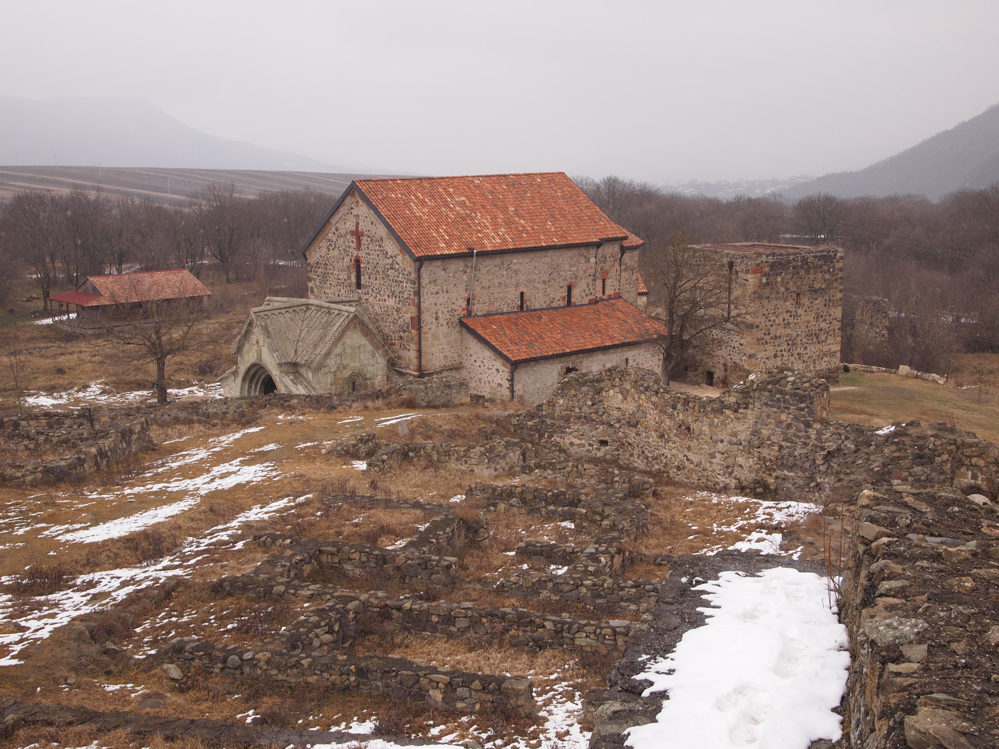 The church, viewed from the ruins of the fortress.